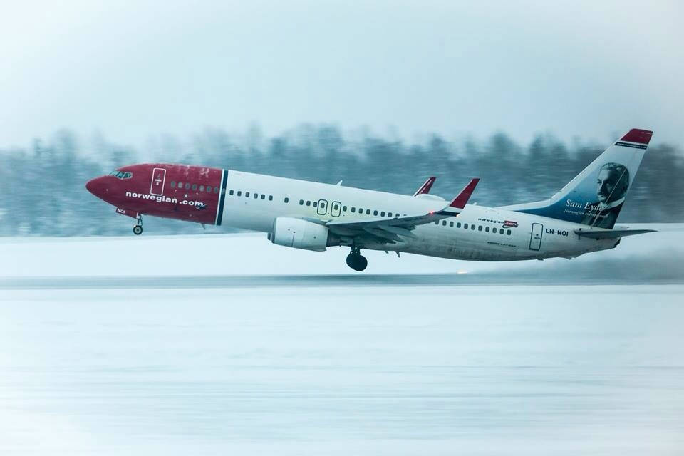 Boeing 737, Norwegian Air Shuttle